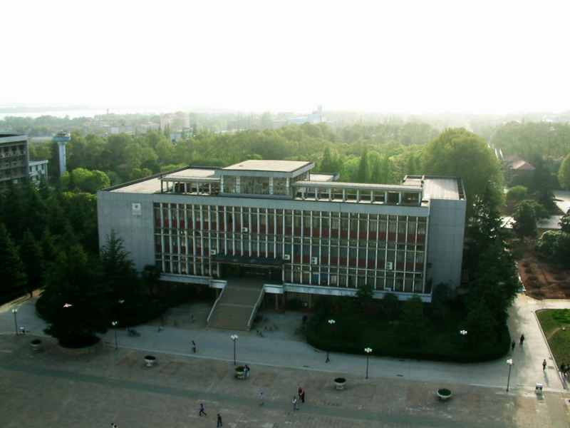 The old library of the Huazhong Agricultural University